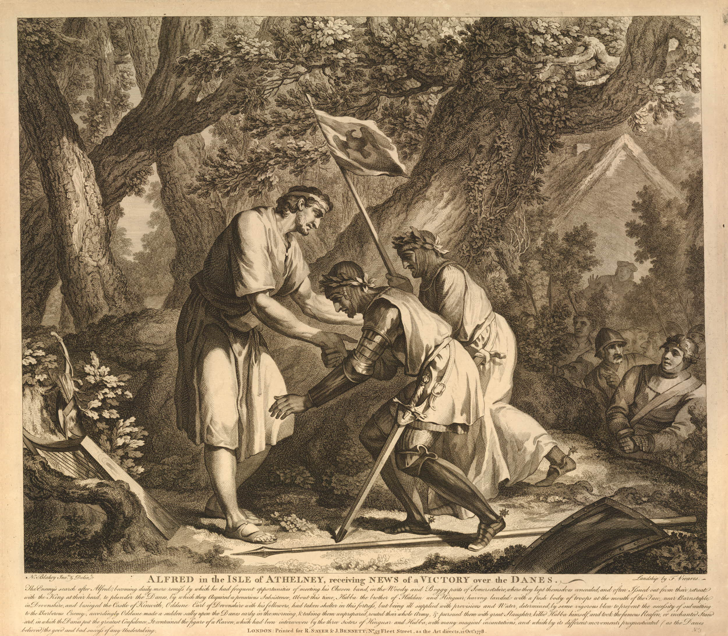 Engraving by Nicholas Blakey, reworked by François Vivares, published in 1778 by Richard Sayer in English History Delineated